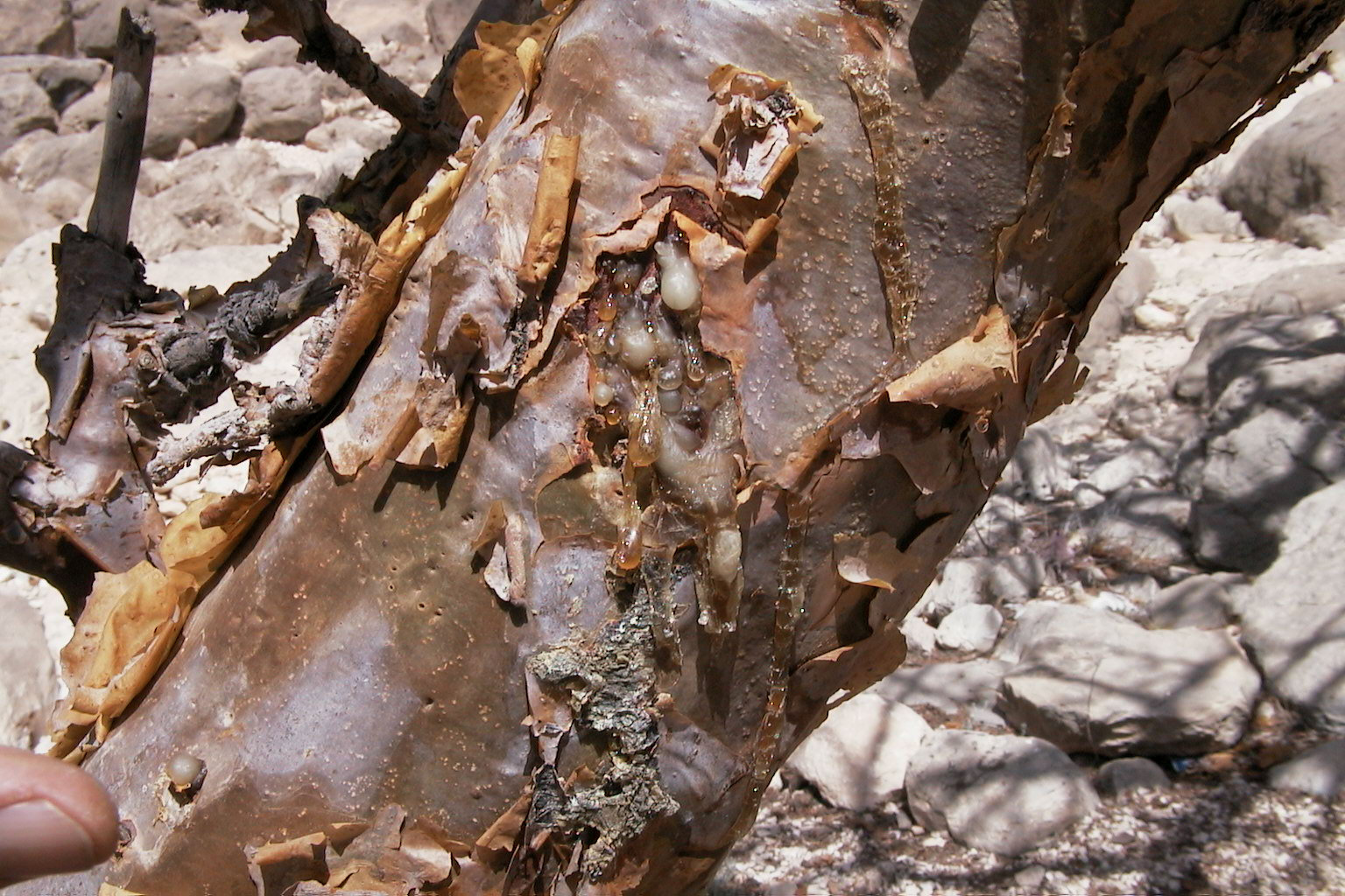 Papery bark of Boswellia sacra (from Dhofar, Oman)